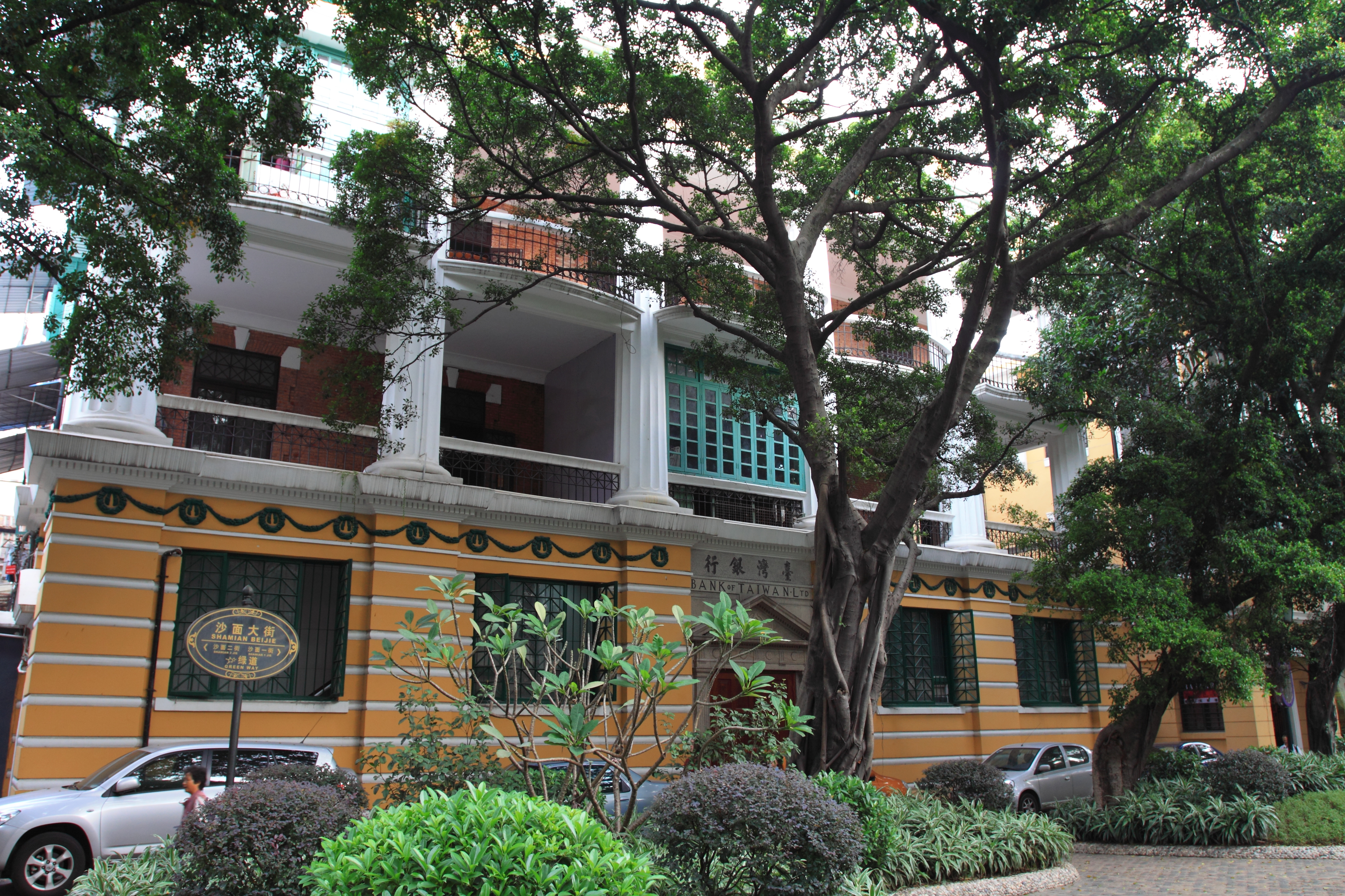 Shamian Island，in Guangzhou, Guangdong, China.